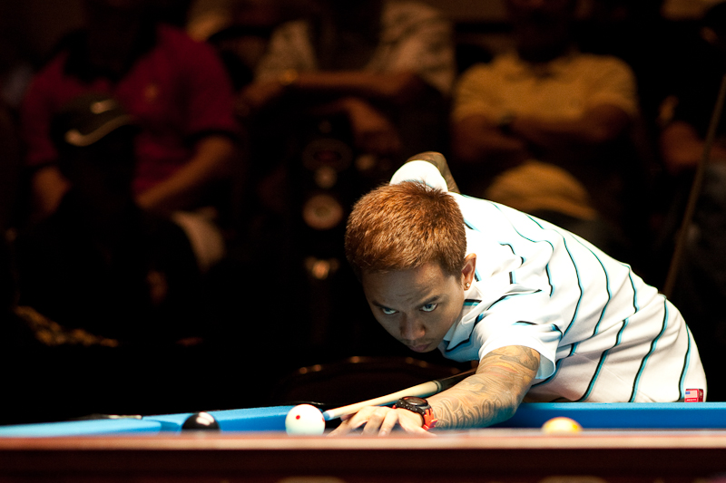 Lee Vann Corteza at the 2013 US Open 10-Ball Championship. Picture by Christopher Reyes